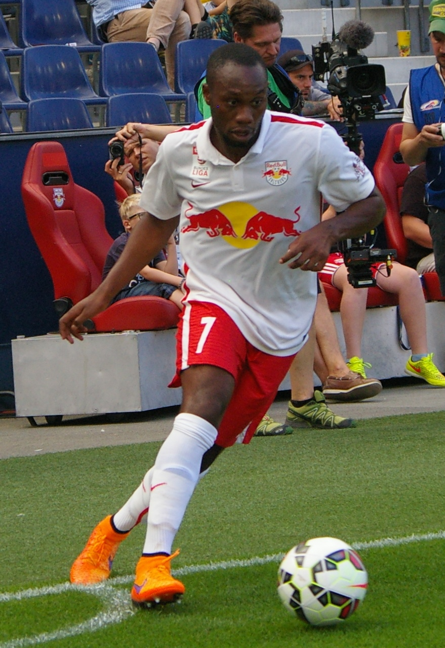 tournament with SV Werder Bremen, FC Southampton, Red Bull Salzburg and Valencia CF preseason friendly matches